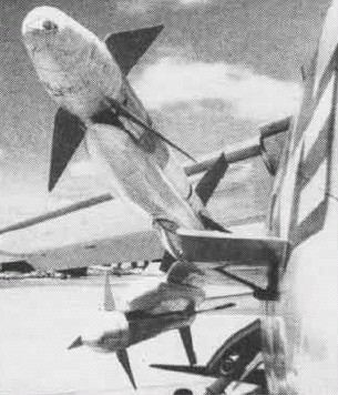 Two AIM-9D Sidewinder air-to-air missiles on the double launching rails of a Vought F8U-2N (after 1962 F-8D) Crusader in 1960.